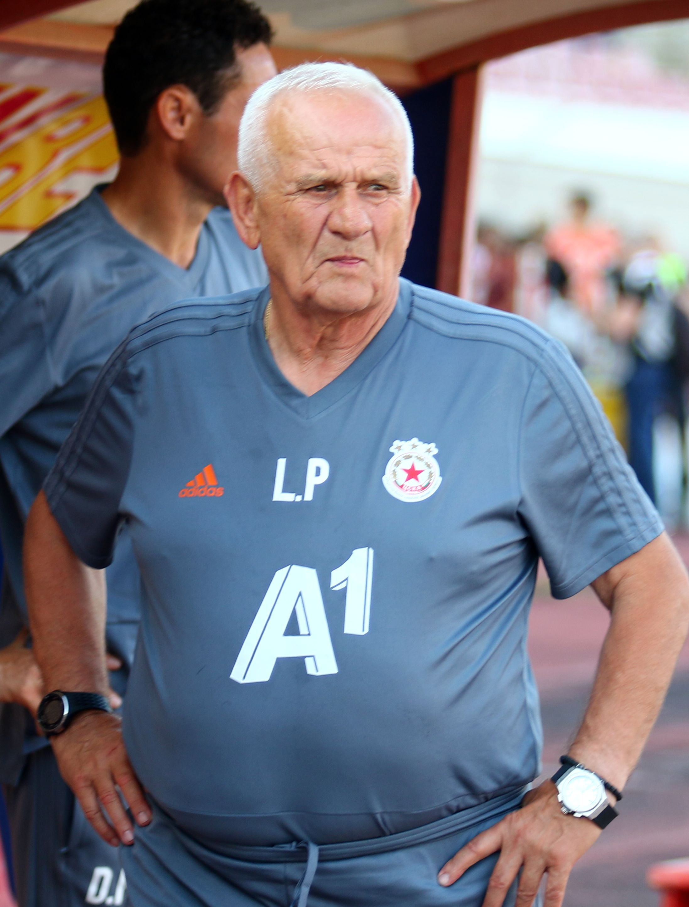 Ljubomir "Ljupko" Petrović (Serbian Cyrillic: Љубомир Љупко Петровић; born 15 May 1947) is a Serbian former football player and manager. Head coach of CSKA Sofia in 2019.